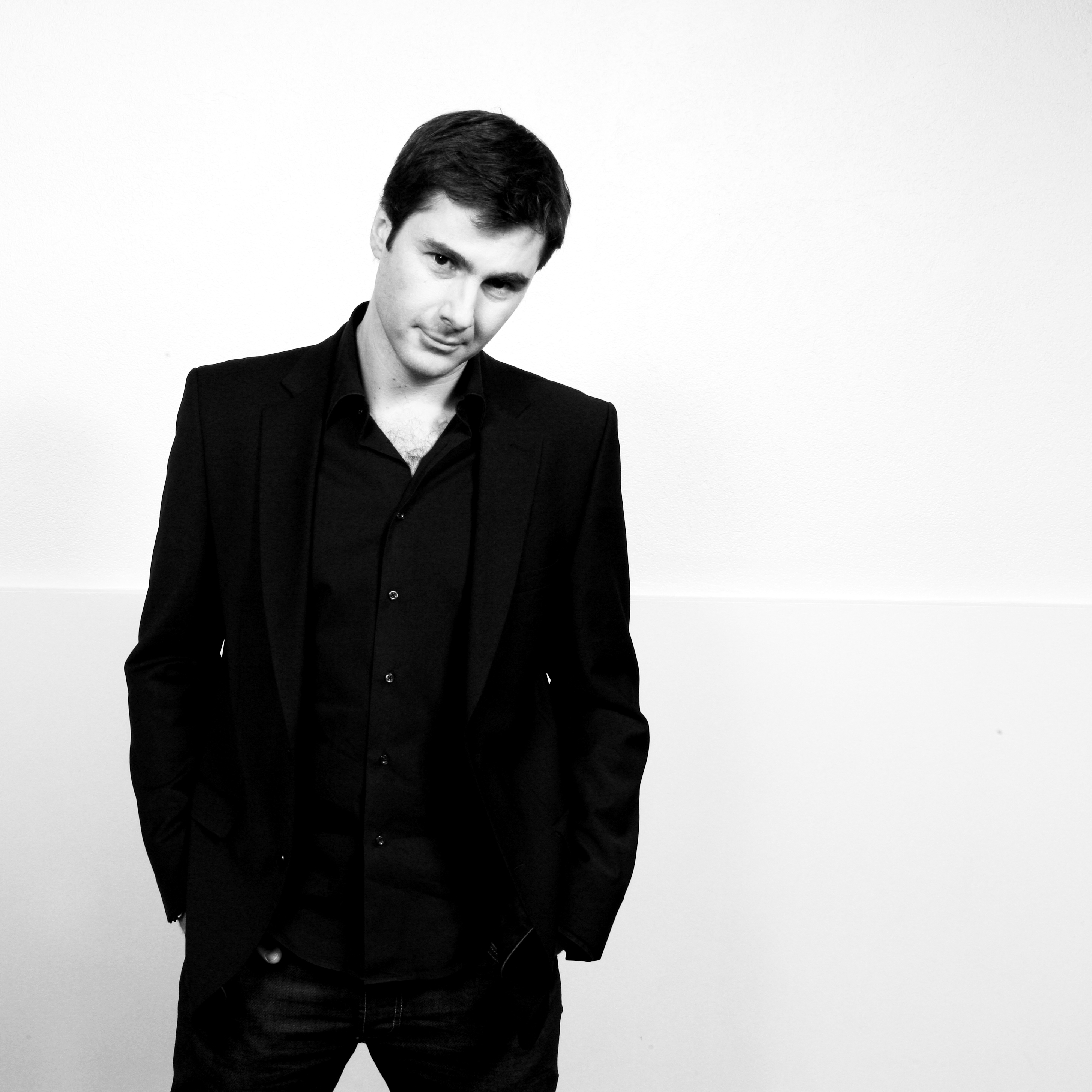 Eric Jean-Jean